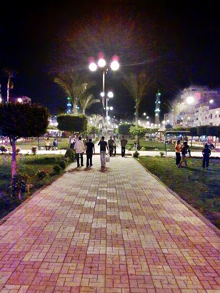 Ibrahimi Square Gardens